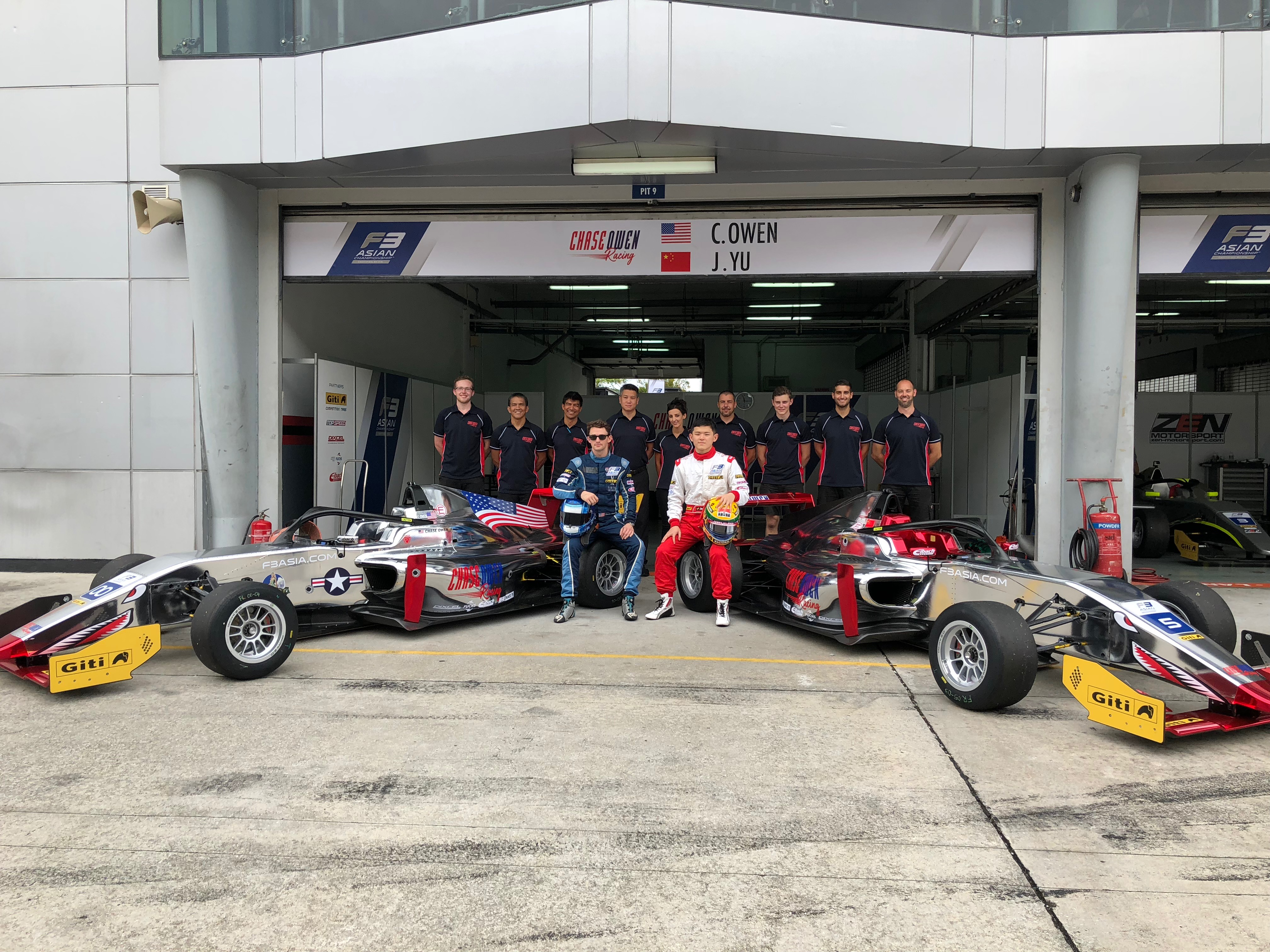 Photo taken during first round of the 2018 Asian F3 Championship at Sepang Circuit. Photo includes the Chase Owen Racing team, with driver and team owner, Chase Owen (center left), next to driver James Yu (center right).